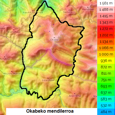 Topographic map showing the Okabe Range.